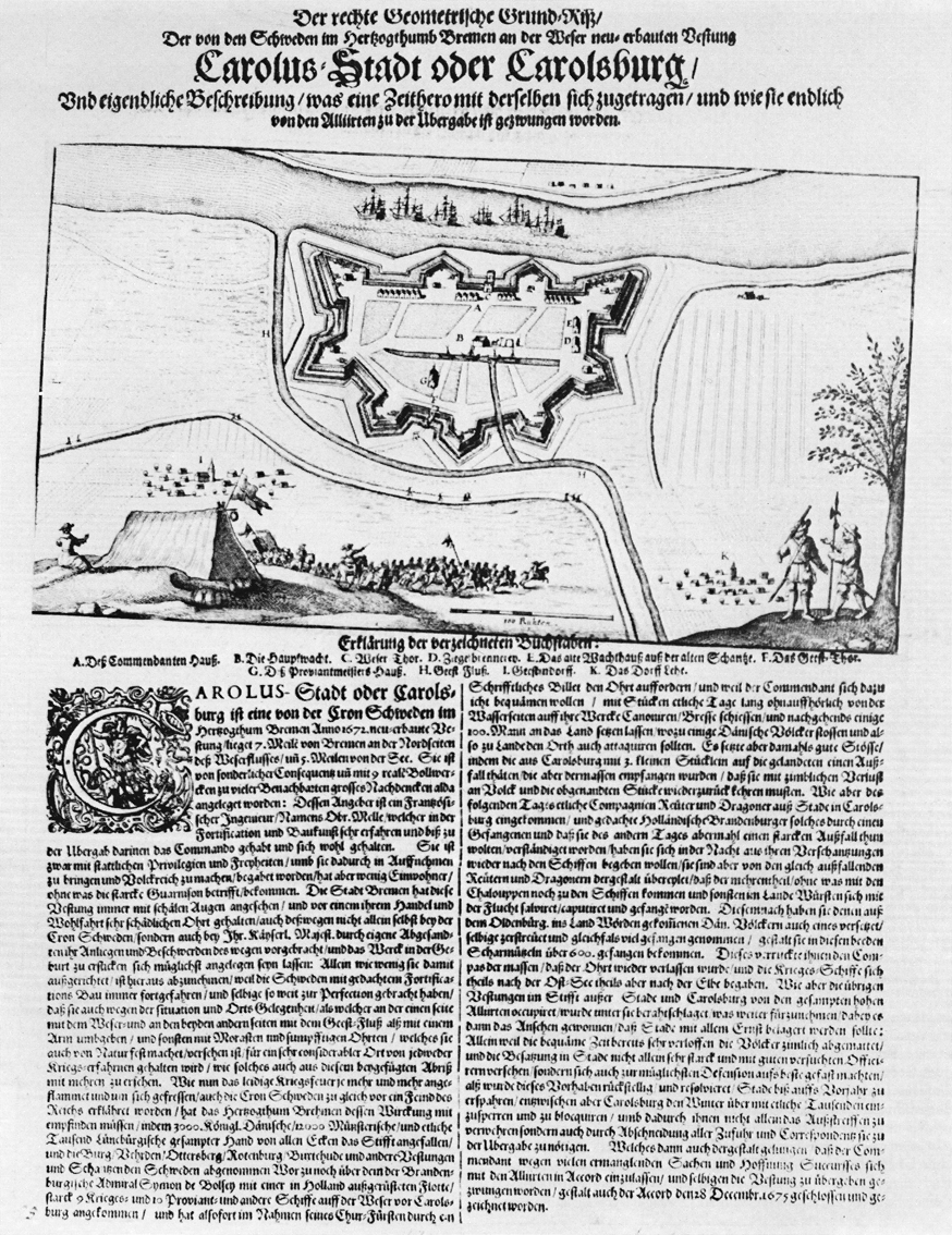 Print about of the siege of the swedish city / fortress of Carlsburg at the estuary of the Weser River (Germany) by troops from Brandenburg, Münster, Lüneburg and Denmark in 1675/1676. The drawing shows the city by mistake with 9 instead of 10 bastions.